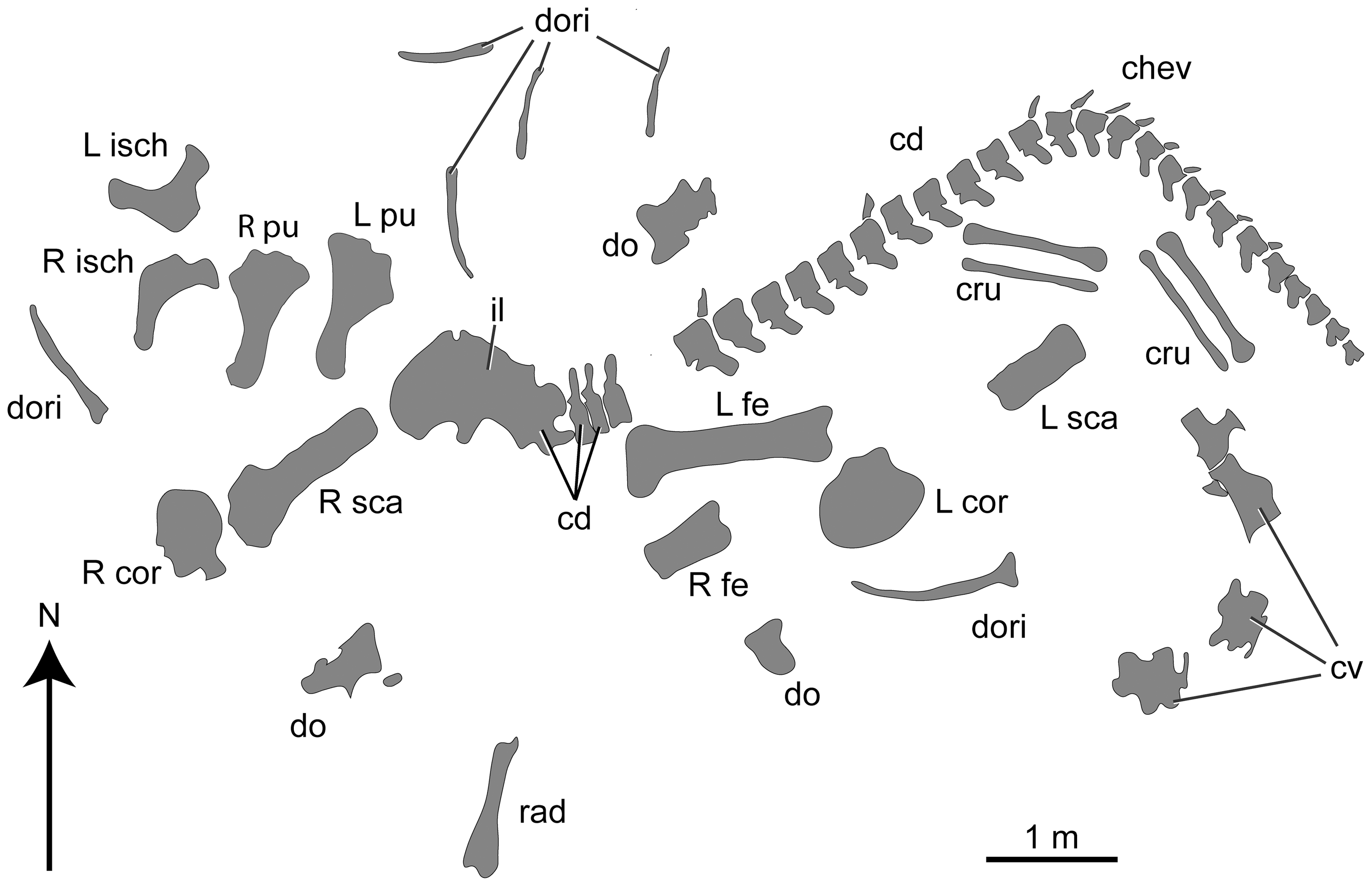 Quarry map of holotype of H. allocotus (HBV-20001) from the Upper Cretaceous of Shanxi, China. Abbreviations: cd, caudal vertebra(e); chev, chevrons; cru, crus; cv, cervical vertebrae; dori, dorsal rib(s); do, dorsal vertebra; il, ilium; L cor, left coracoid; L fe, left femur; L ish, left ischium; L pu, left pubis; L sca, left scapula; rad, radius; R cor, right coracoid; R fe, right femur; R ish, right ischium; R pu, right pubis; R sca, right scapula.